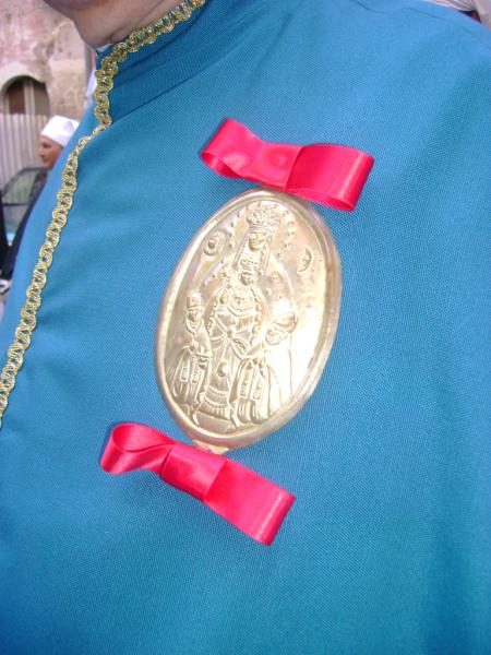 Medal of Our Lady of Piedgrotta brothehood in Taranto